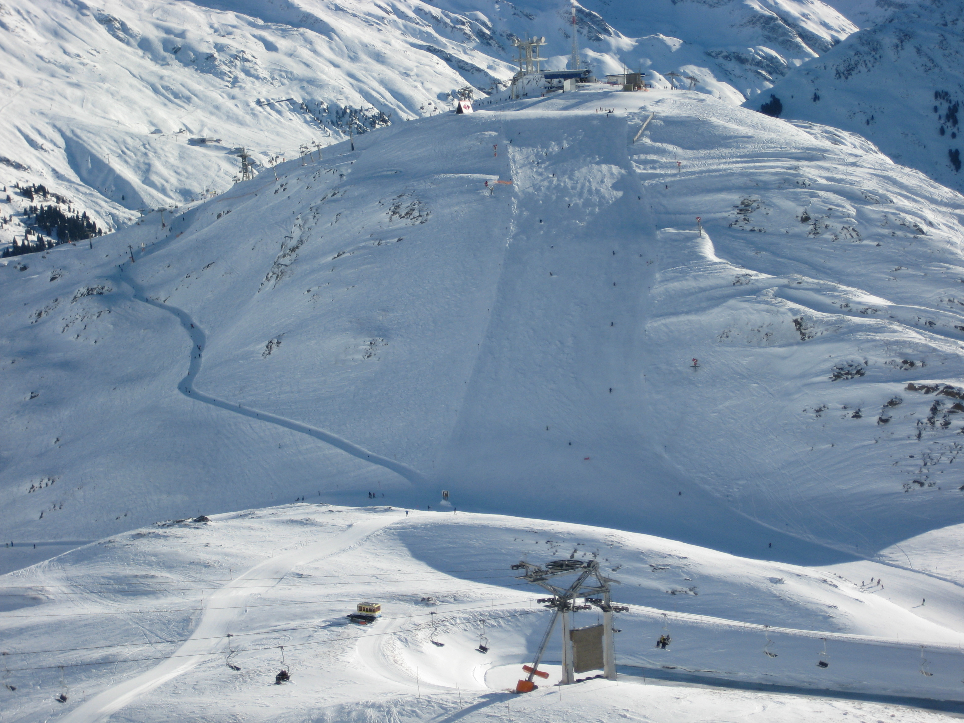 Galzig (St. Anton am Arlberg, Tyrol, Austria), view from north.